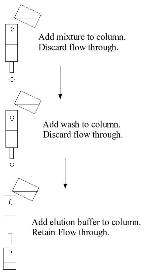 affinity chromotography diagram